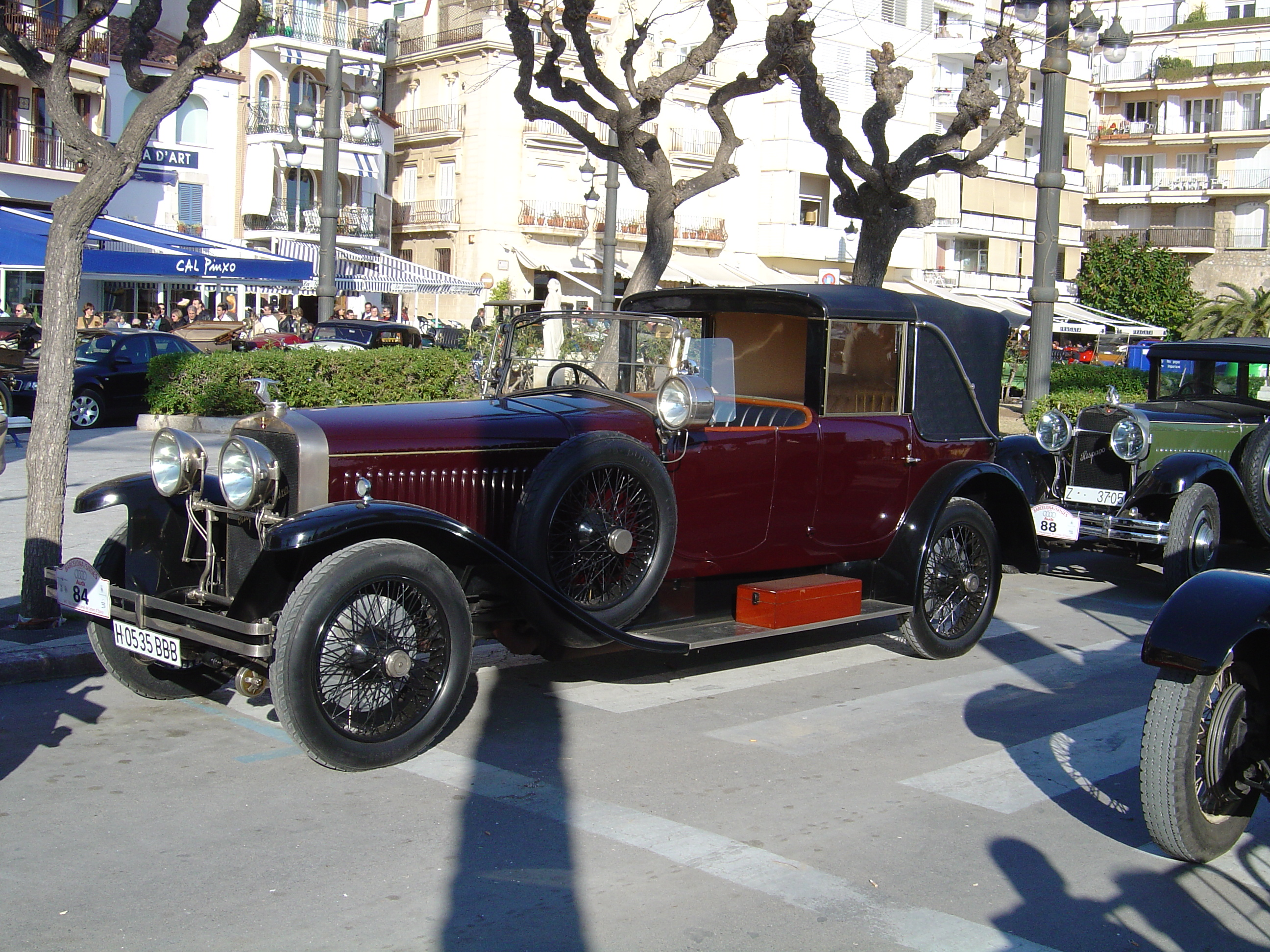 Hispano-Suiza H6B Jacques Saoutchik Landaulette, 1925